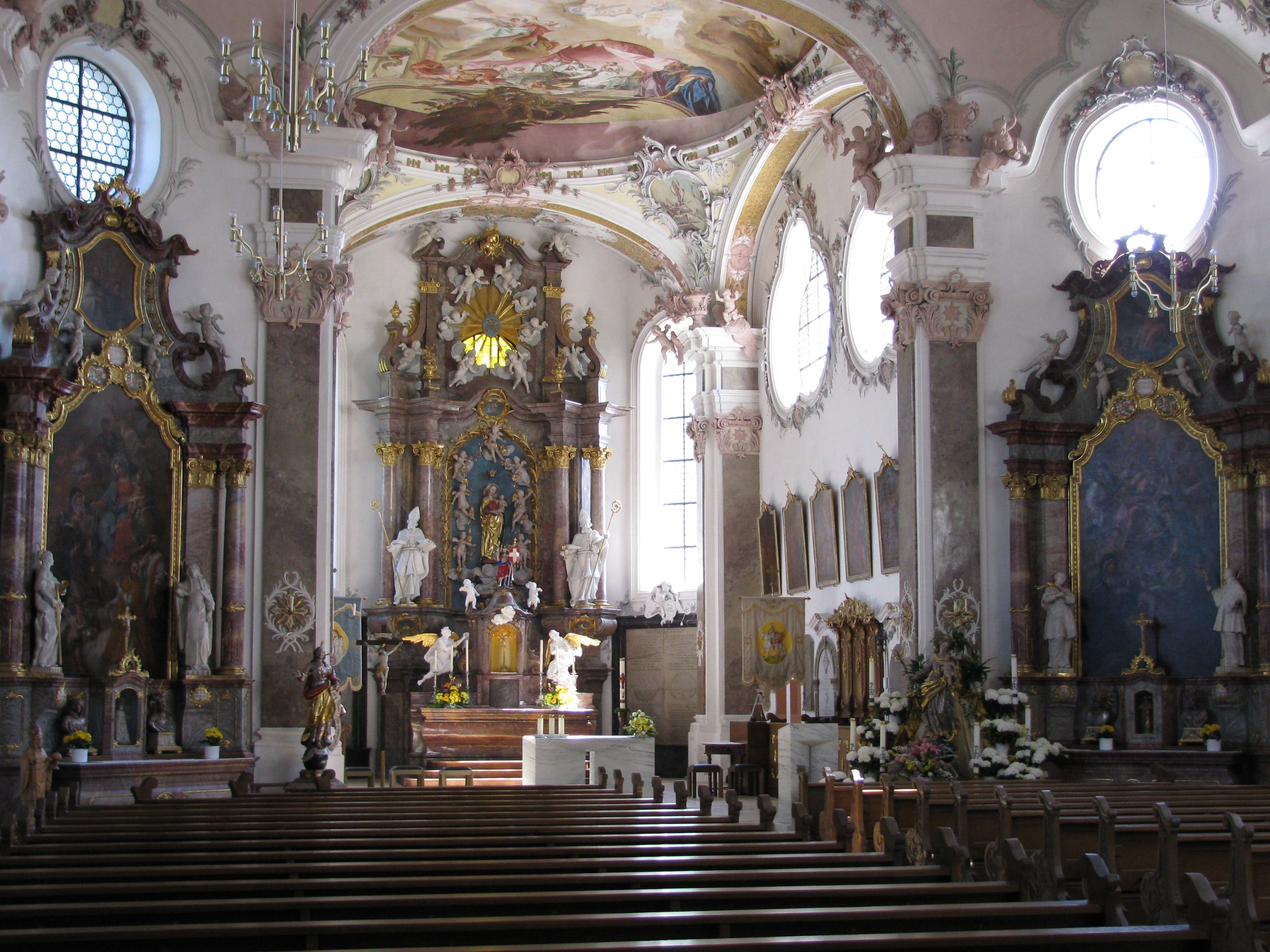 Germany - Baden-Württemberg - district Alb-Donau - Erbach (Donau): St. Martinus church, interior view